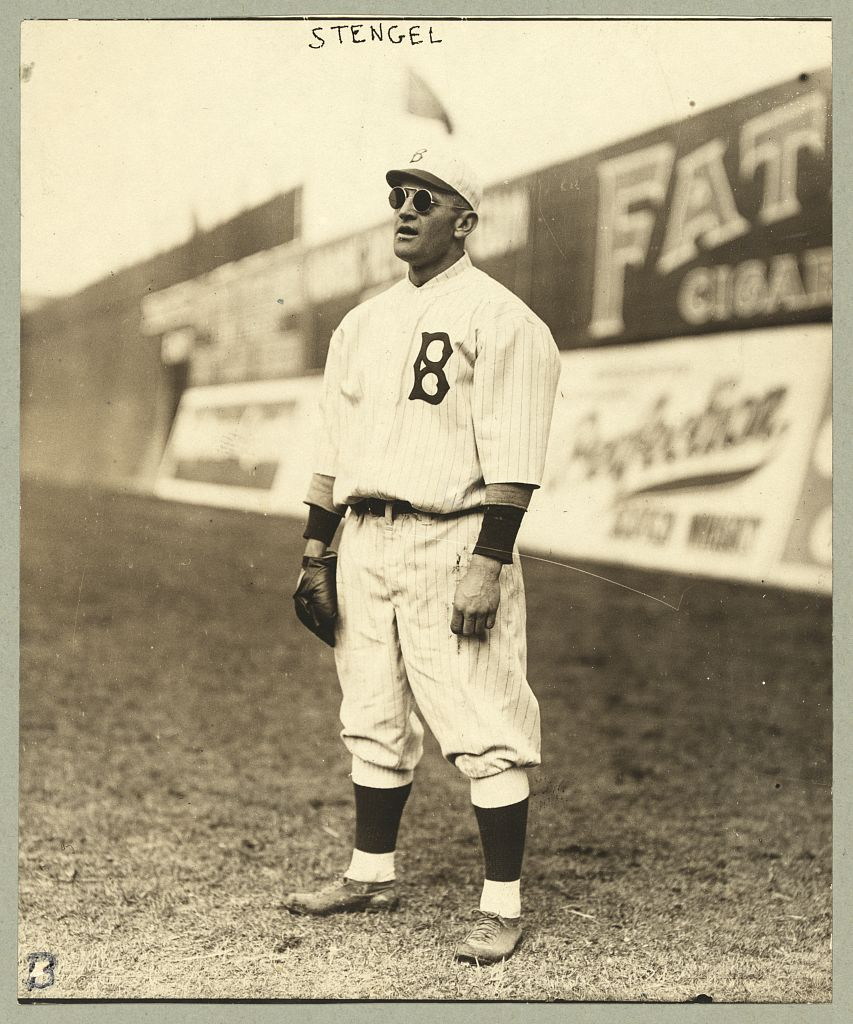 Casey Stengel, full-length portrait, wearing sunglasses, while playing outfield for the Brooklyn Dodgers